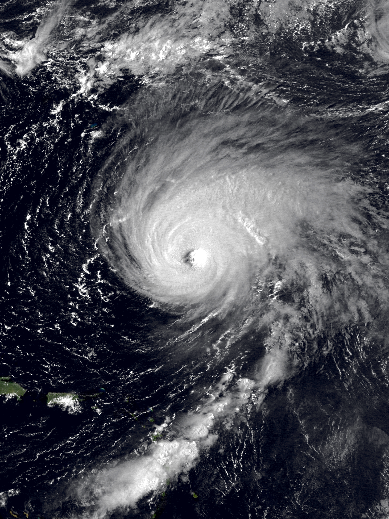 Hurricane Gabrielle at peak intensity north of the Lesser Antilles on September 6, 1989